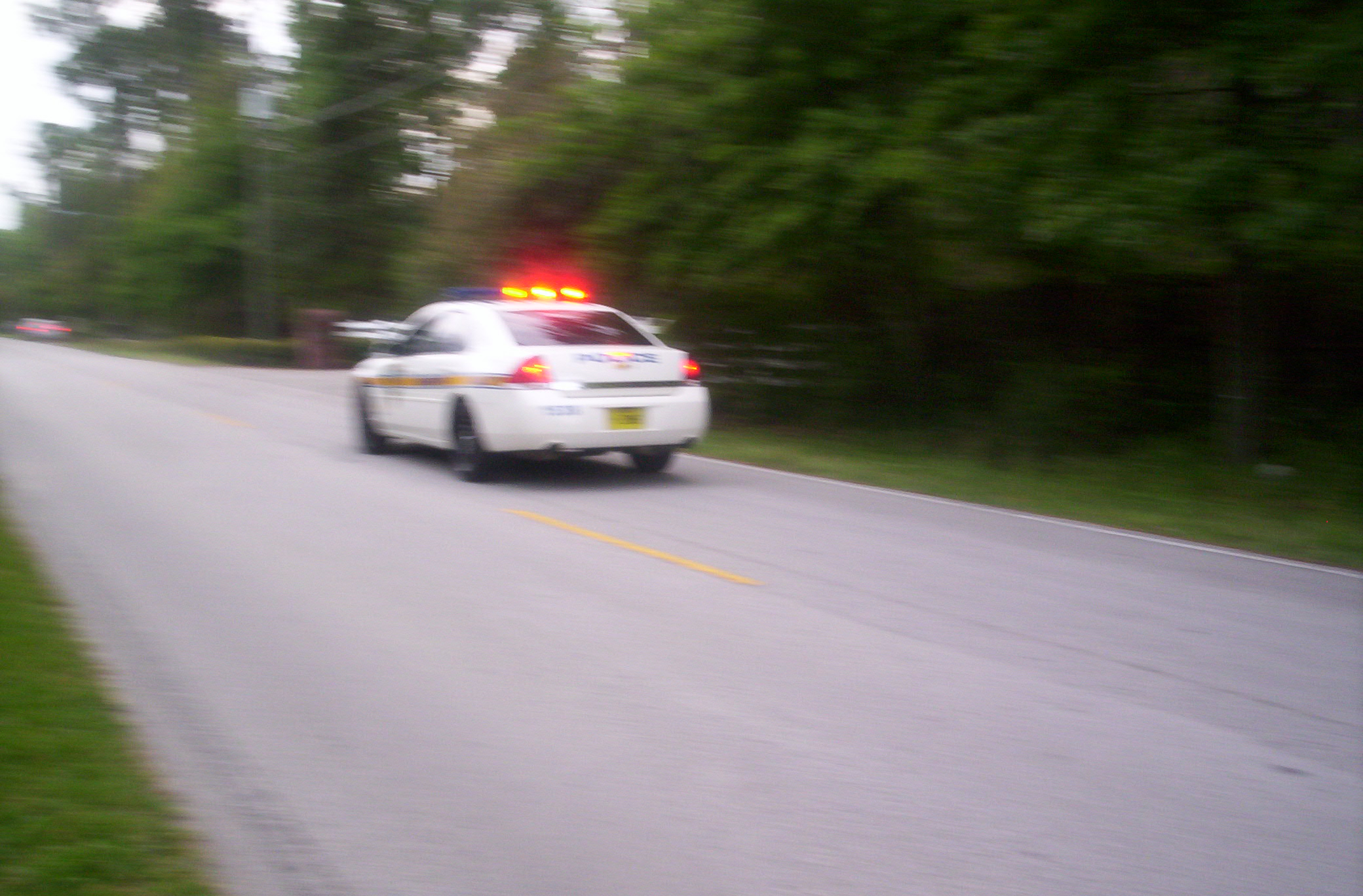 Jacksonville Sheriff's office responding to a priority call.